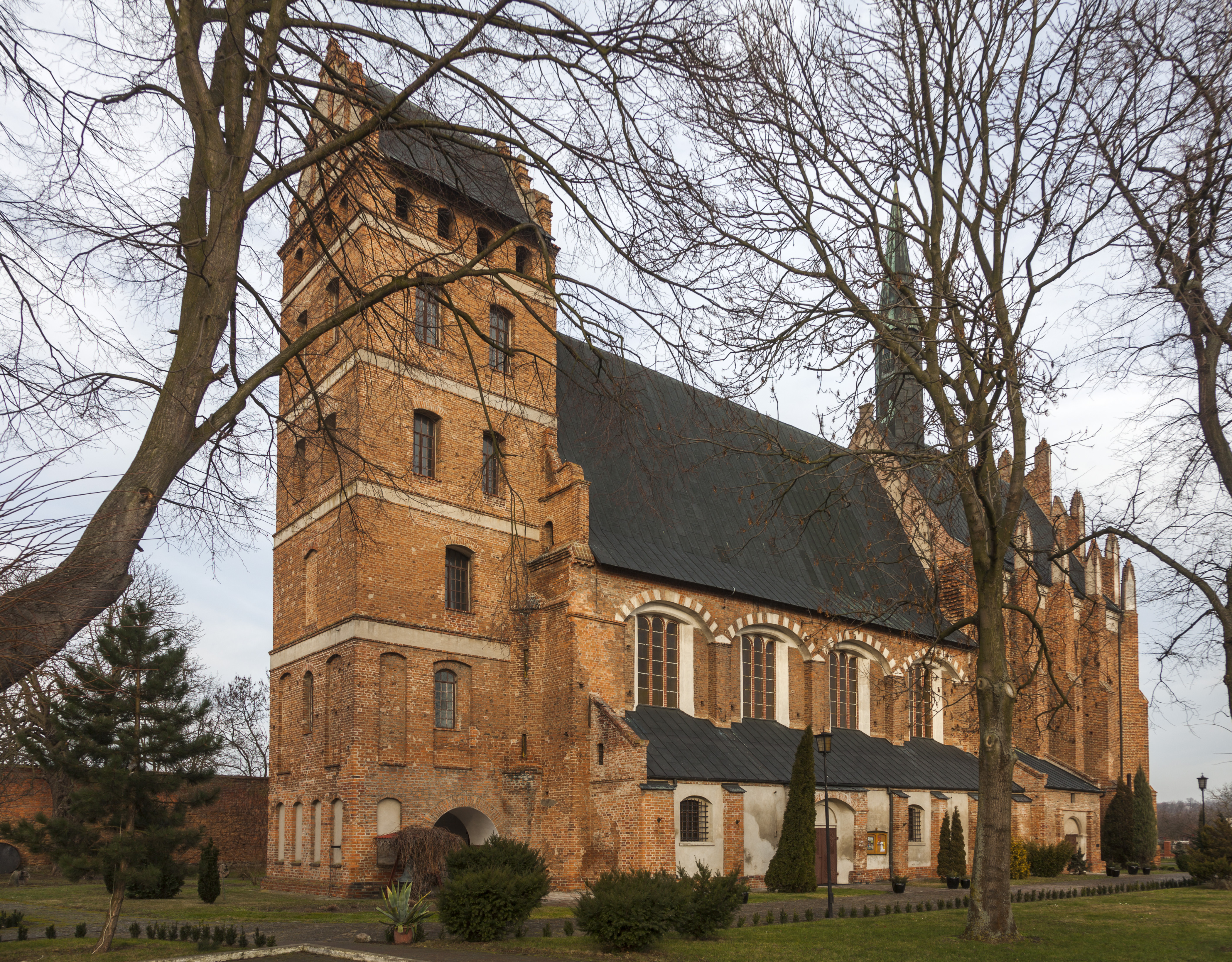 Church of Saint Stanislaus and Our Lady of Częstochowa church in Świecie, old parish church of the town.